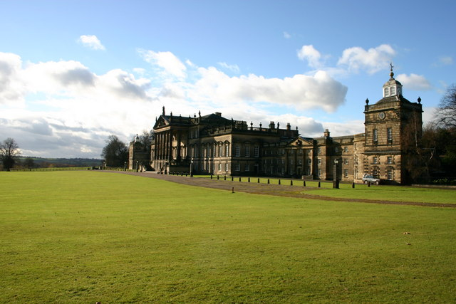 North Western aspect of Wentworth Woodhouse